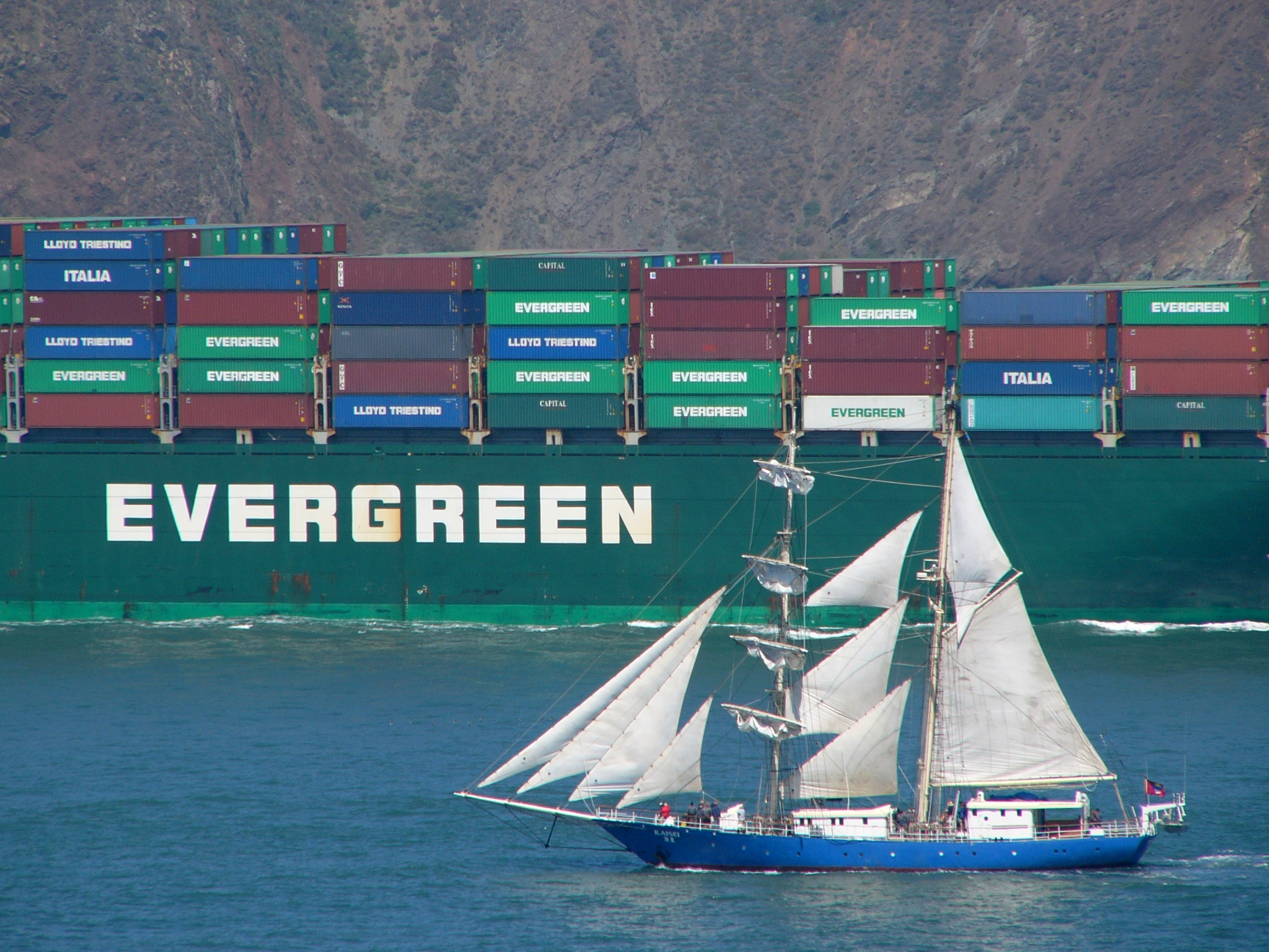 Container ship and the KAISEI IMO number: 8859366 Callsign: V2YJ9